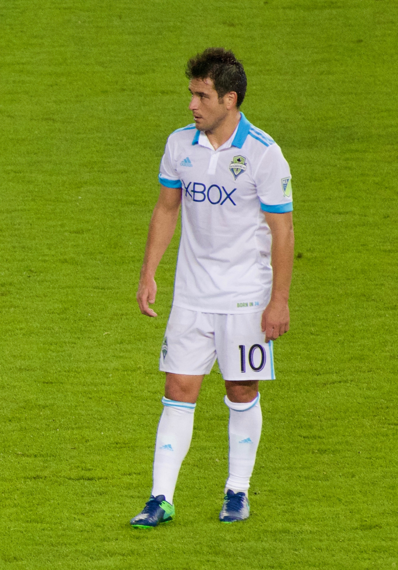 Nicolás Lodeiro playing for Seattle Sounders at Avaya Stadium on 8 April 2017.